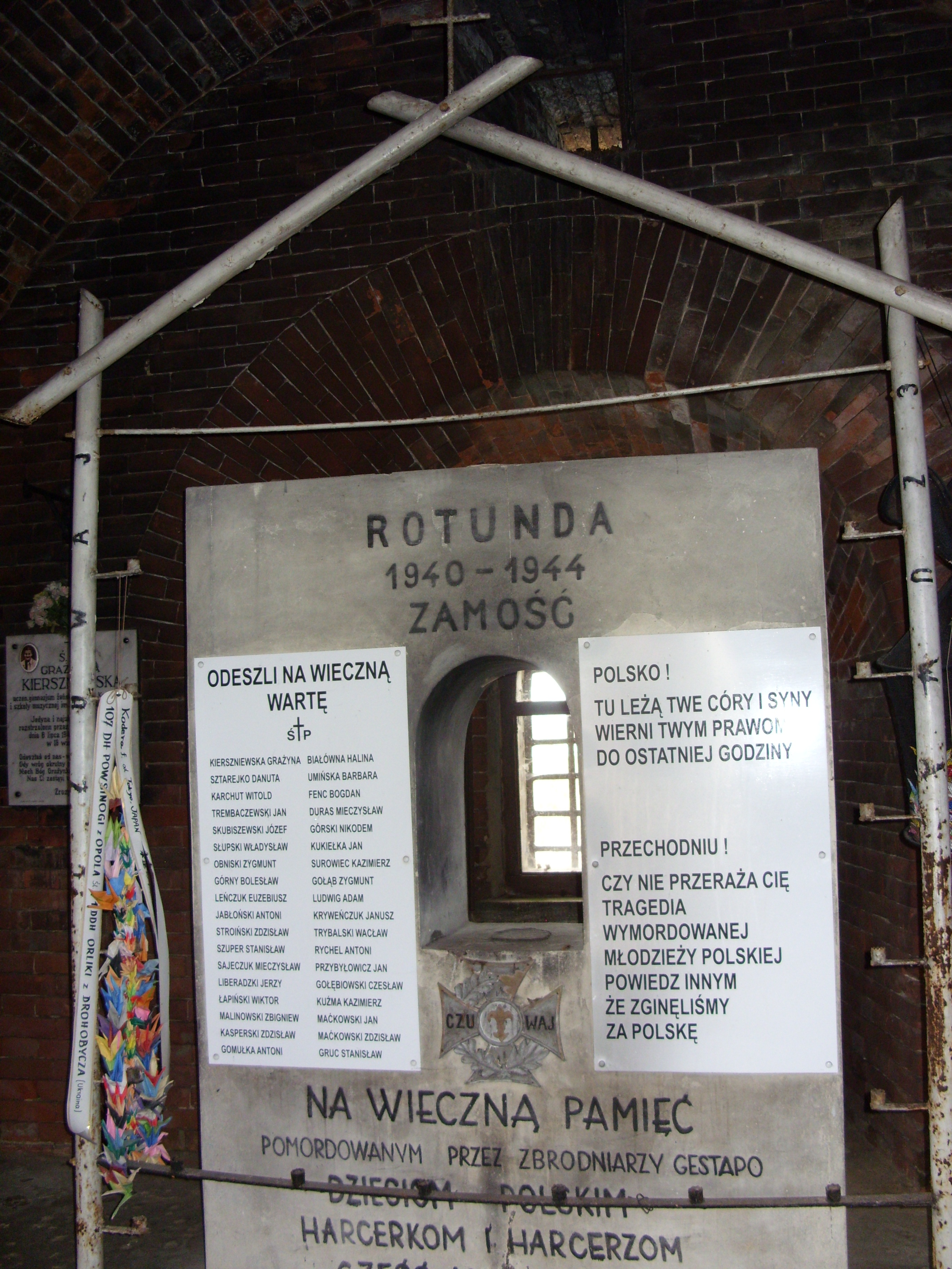 Scouts' cell. Rotunda Zamość 1940-1944. Polish scouts from the Zamość region were murdered by the Germans during World War II.